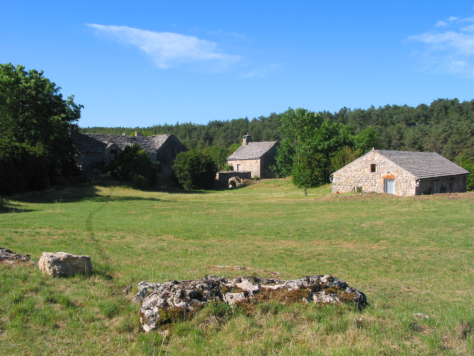 La Cresse (Aveyron - France), farm of la Tindelle in the Cause Noir (XVII/XVIIIth centuries).